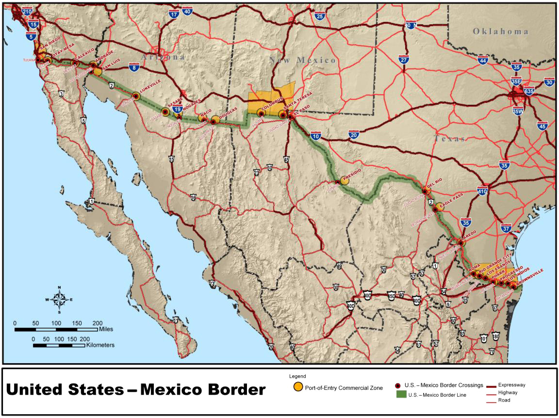 Summary from